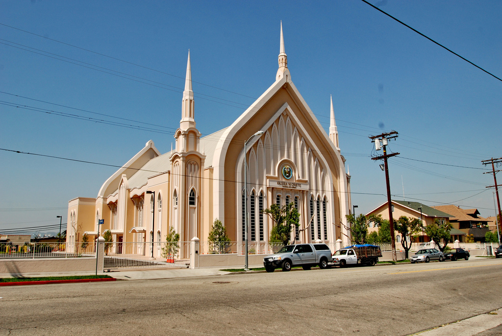 Iglesia ni Cristo church in LA